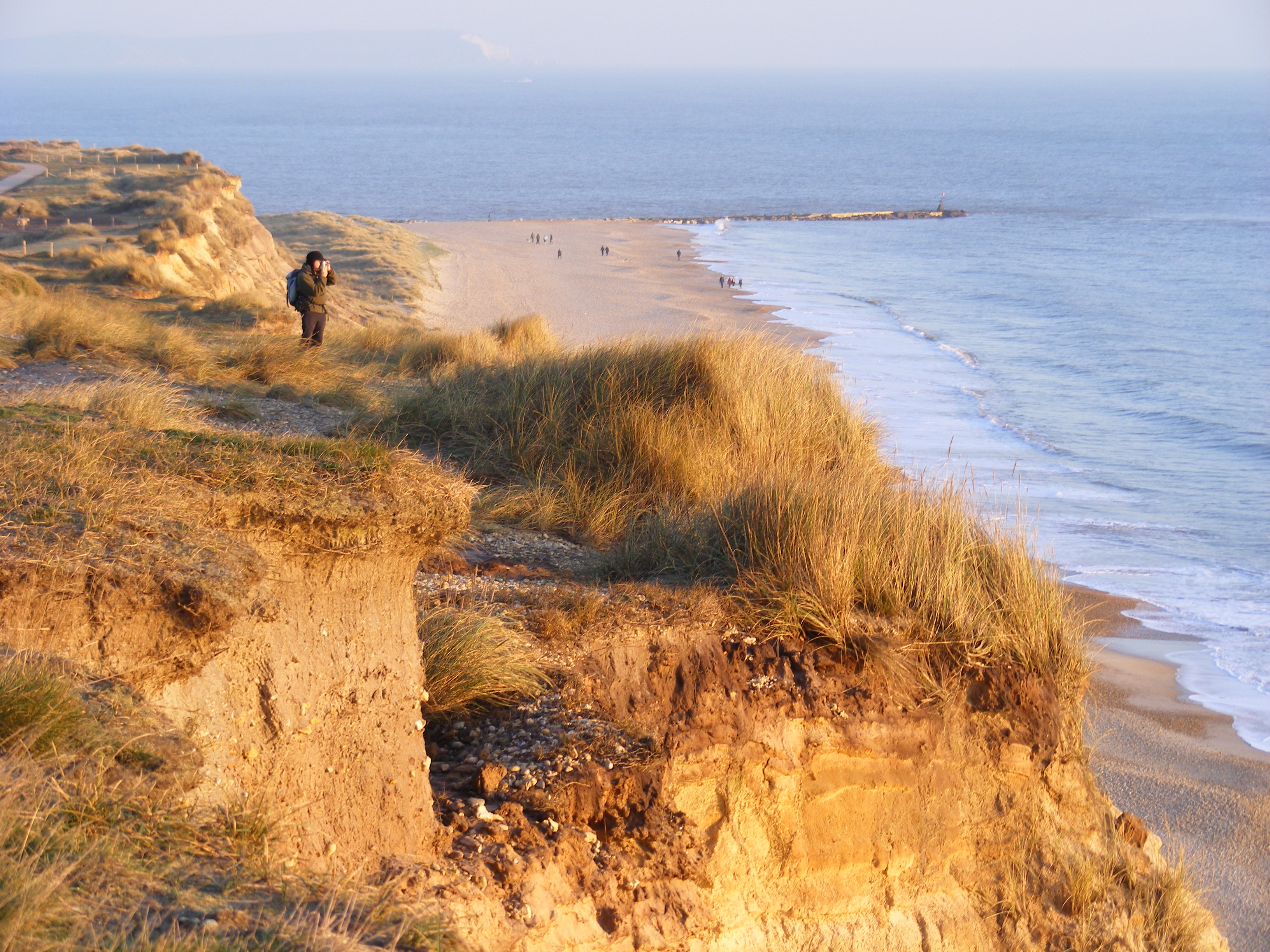 Southern edge of Hengistbury Head showing the seaward cliffs. The Isle of Wight is just visible in the distance. This sunset view shows the erosion risk to the Head.